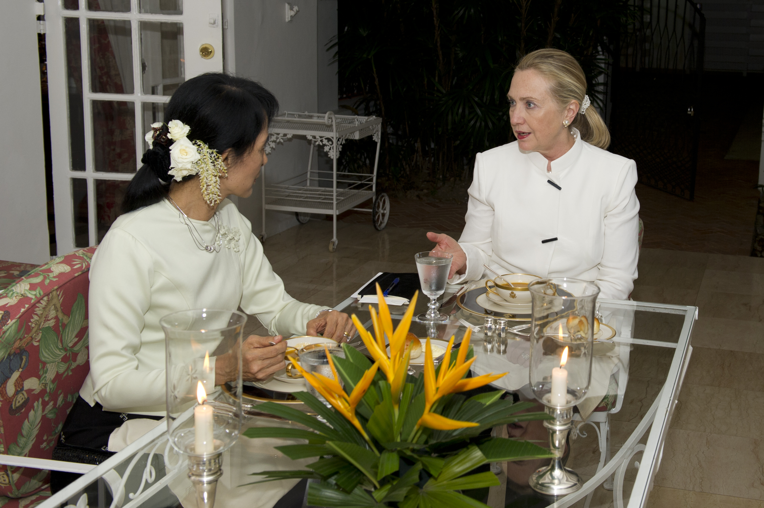 RANGOON, Burma (December 1, 2011) Secretary of State Hillary Clinton meets Daw Aung San Suu Kyi for dinner in Rangoon during her historic visit to Burma. [State Department photo by William Ng]